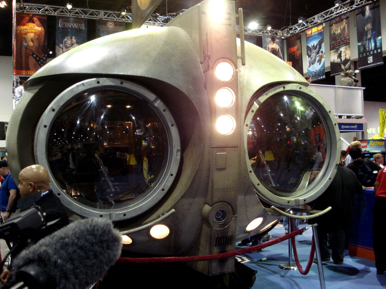 "Archie", Nite Owl's ship at ComicCon'08